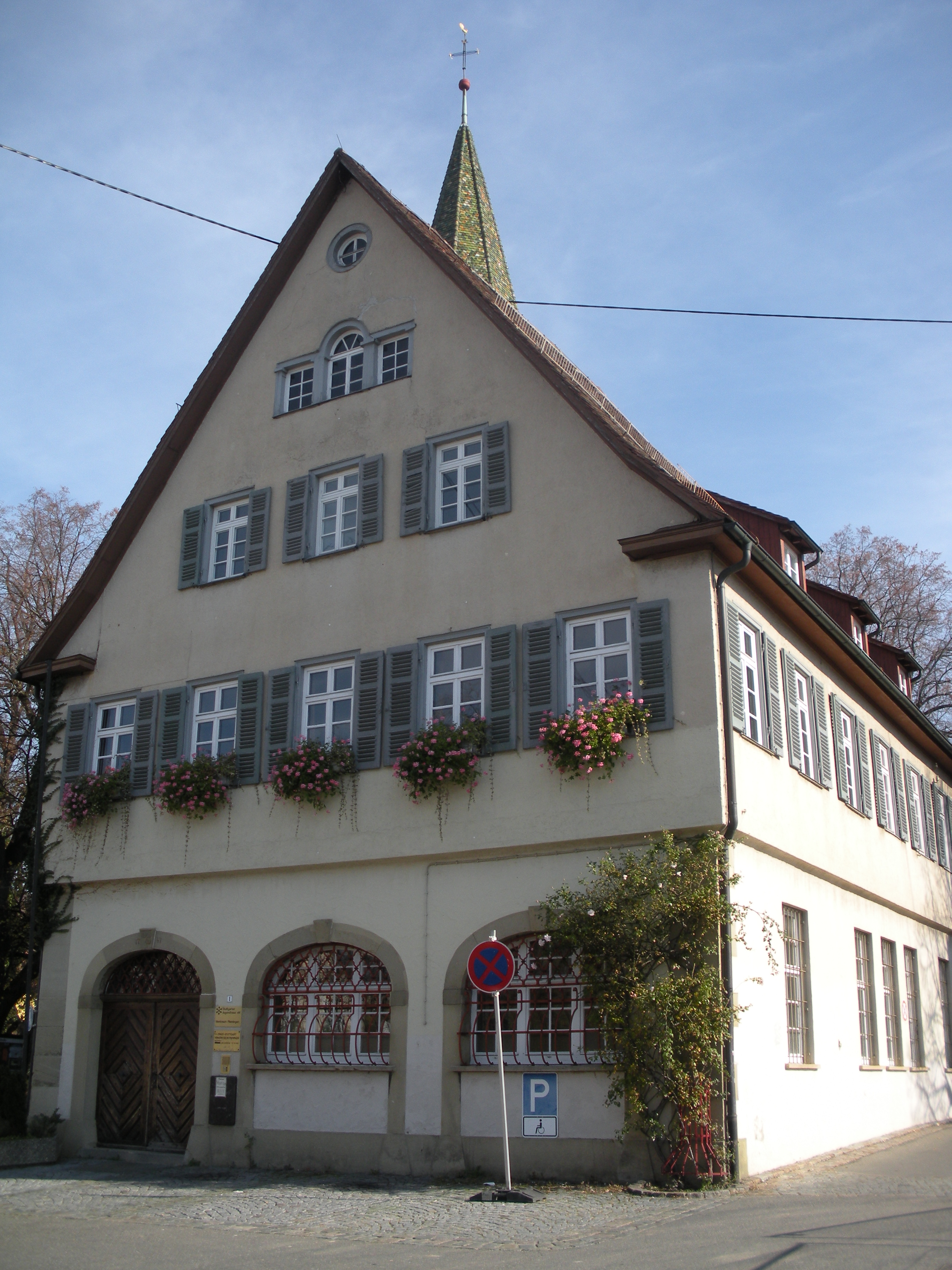 Old Town Hall in Stuttgart-Plieningen